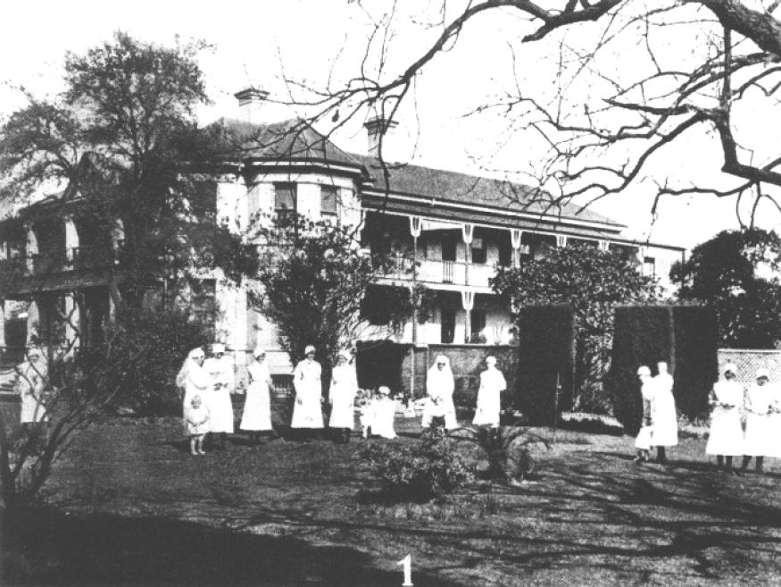 Bethesda Maternity Hospital, 1936.